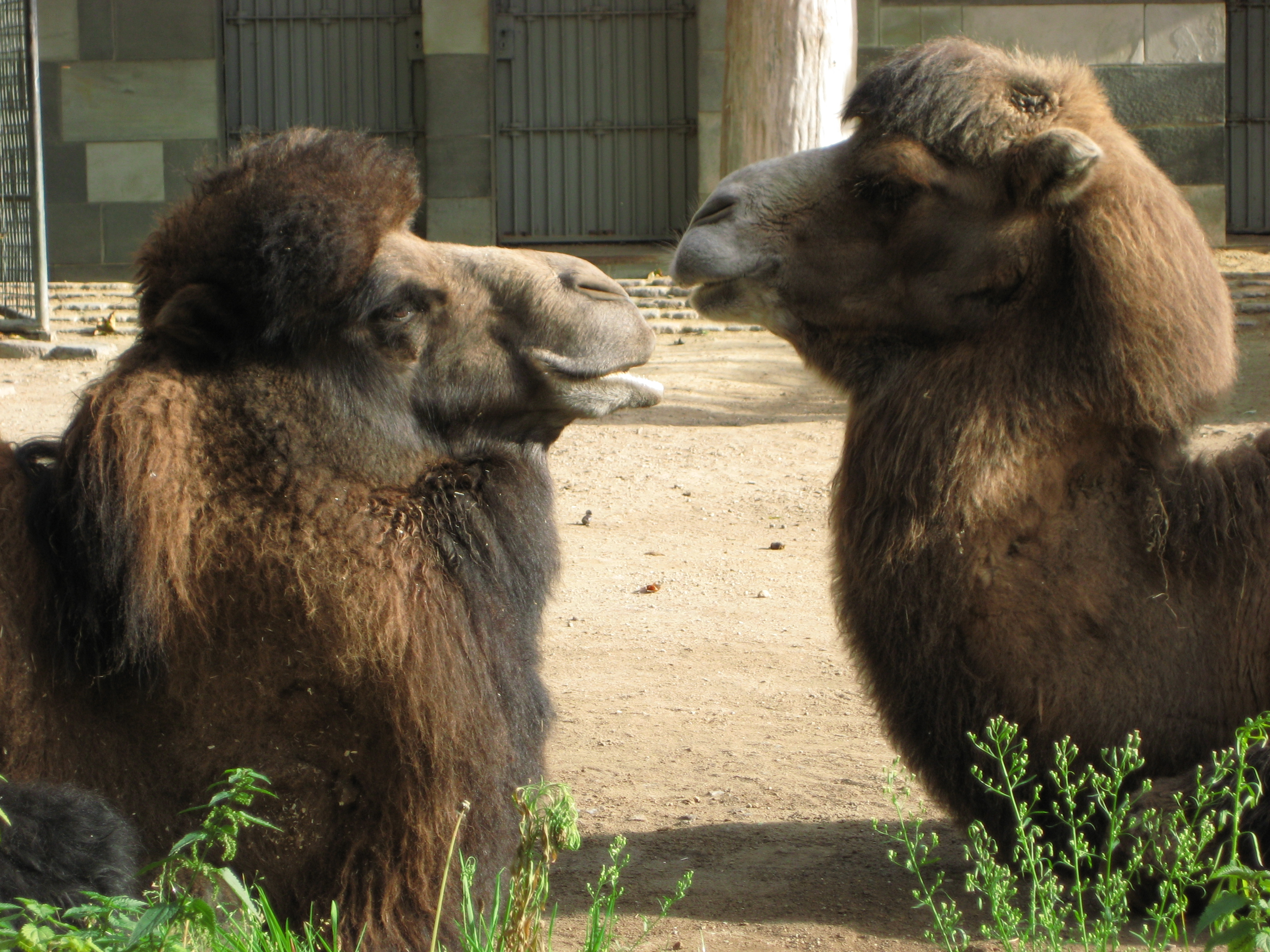 Bactrian camels at the Zoo of Berlin